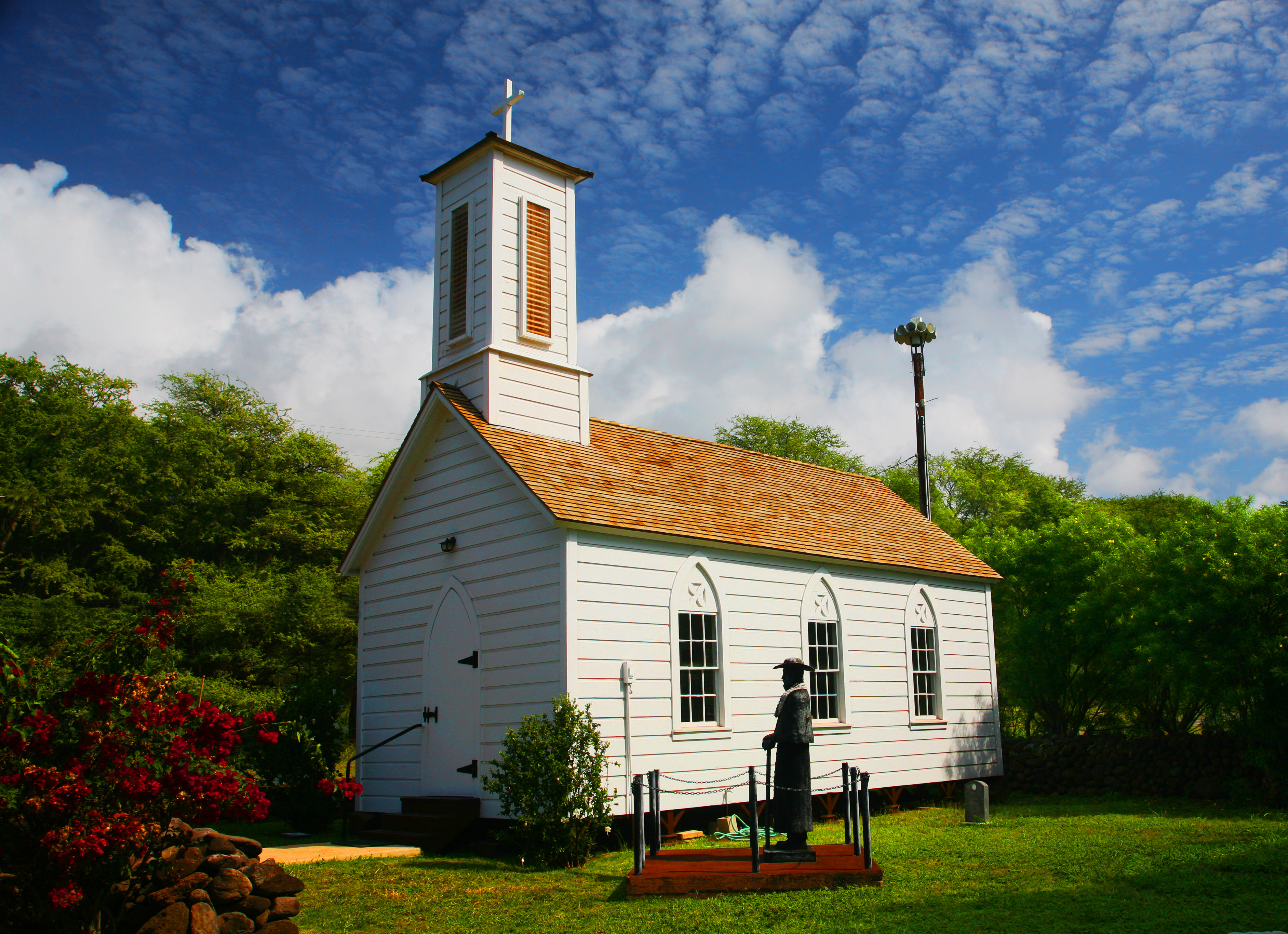 This is one of the two surviving churches built in the late 1800's by the Belgian priest Father Damien (of Leper Colony fame)